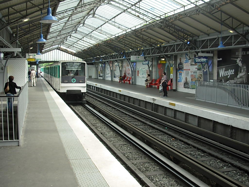 Paris Métro Line 6 arriving at Glacière en route for Charles de Gaulle — Étoile